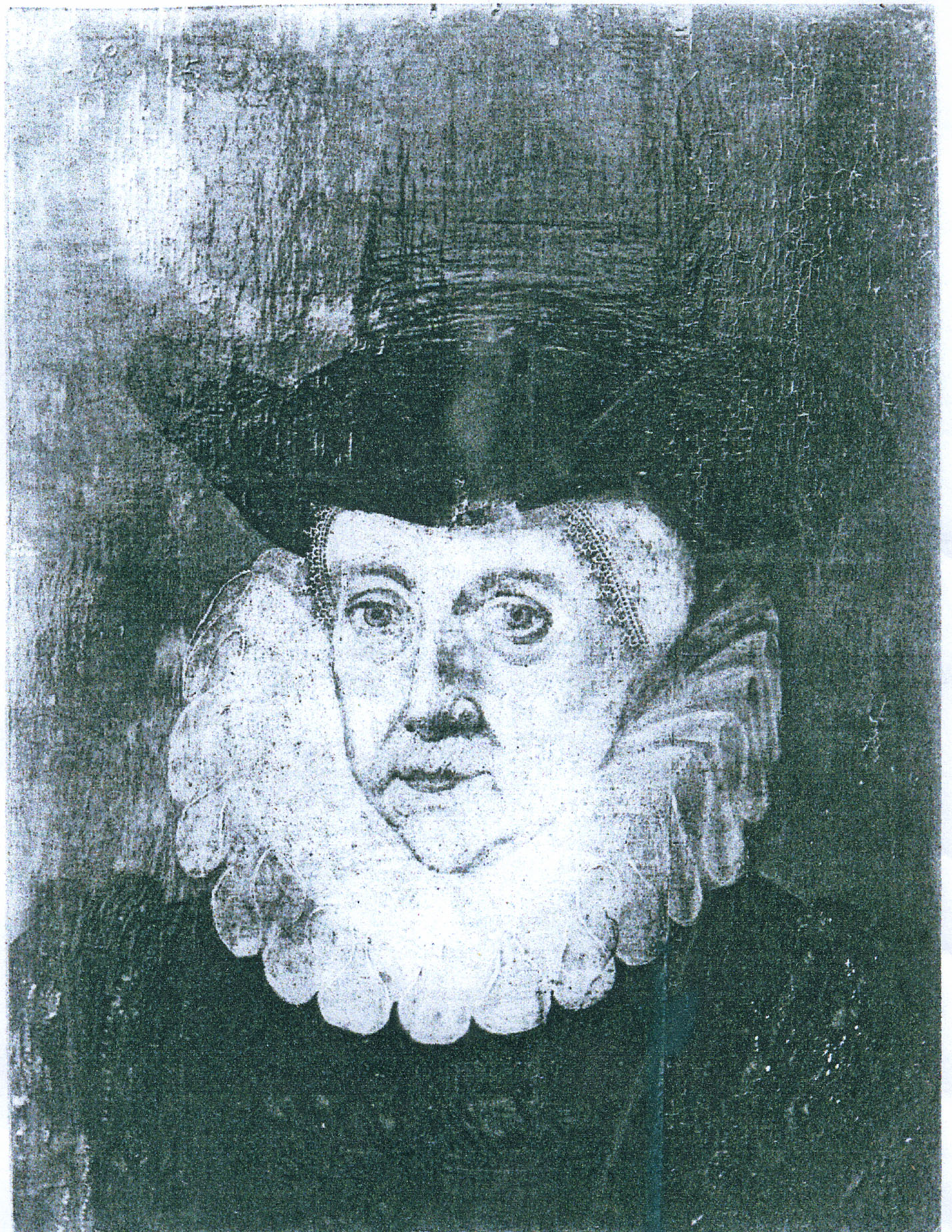 Blanche Parry (1507/8-1590, modern dating) - have you seen the original portrait please as only known from this photograph.